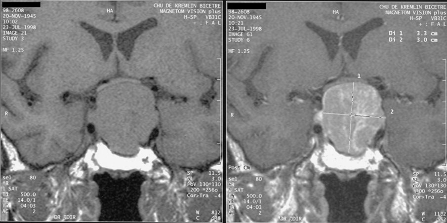 Pituitary macroadenoma with suprasellar extension, compressing the optic chiasm.